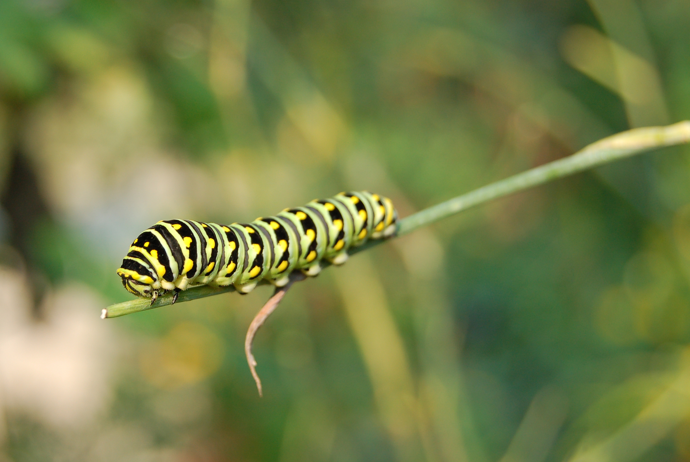 Photograph of an Black Swallowtailen (Papilio polyxenes en ). Photo taken at the Tyler Arboretum where it was identified.